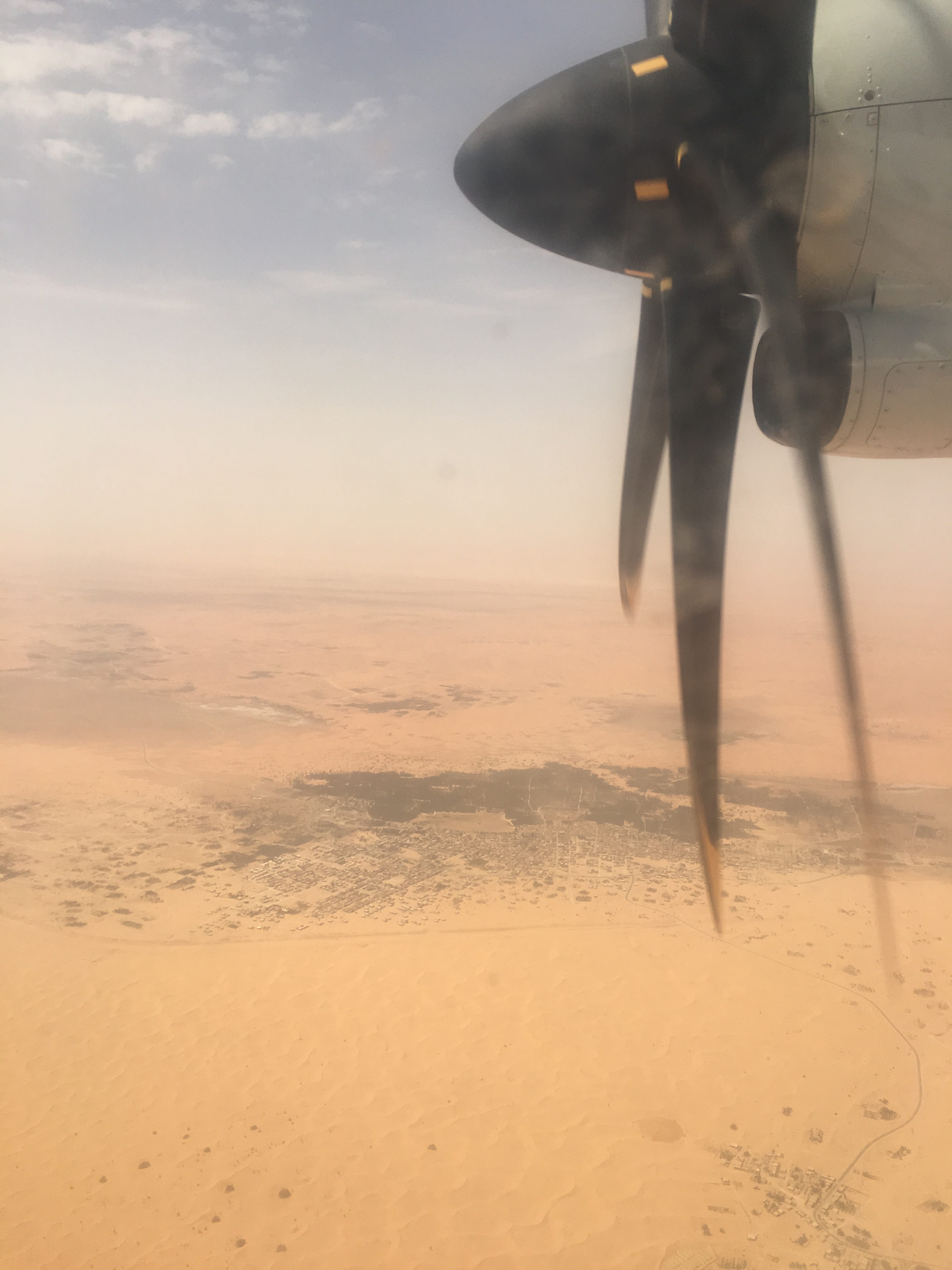 Photo taken by myself on an ATR, during a flight from Algiers (north, Capital) to Ouargla (south, Sahara), the plane was in last step of flight (almost landing, less than 1000m altitude) This is an image with the theme "Africa on the Move or Transport" from: Algeria